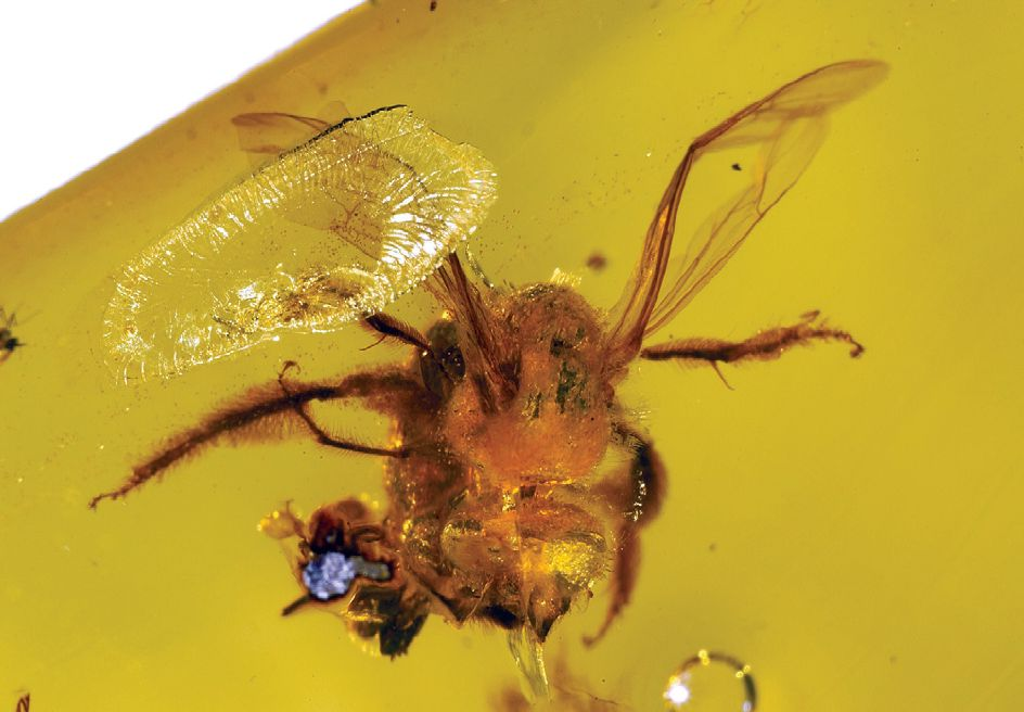 Photomicrograph of holotype female of Nesagapostemon moronei (MACT-1172). Dorsal aspect of holotype.